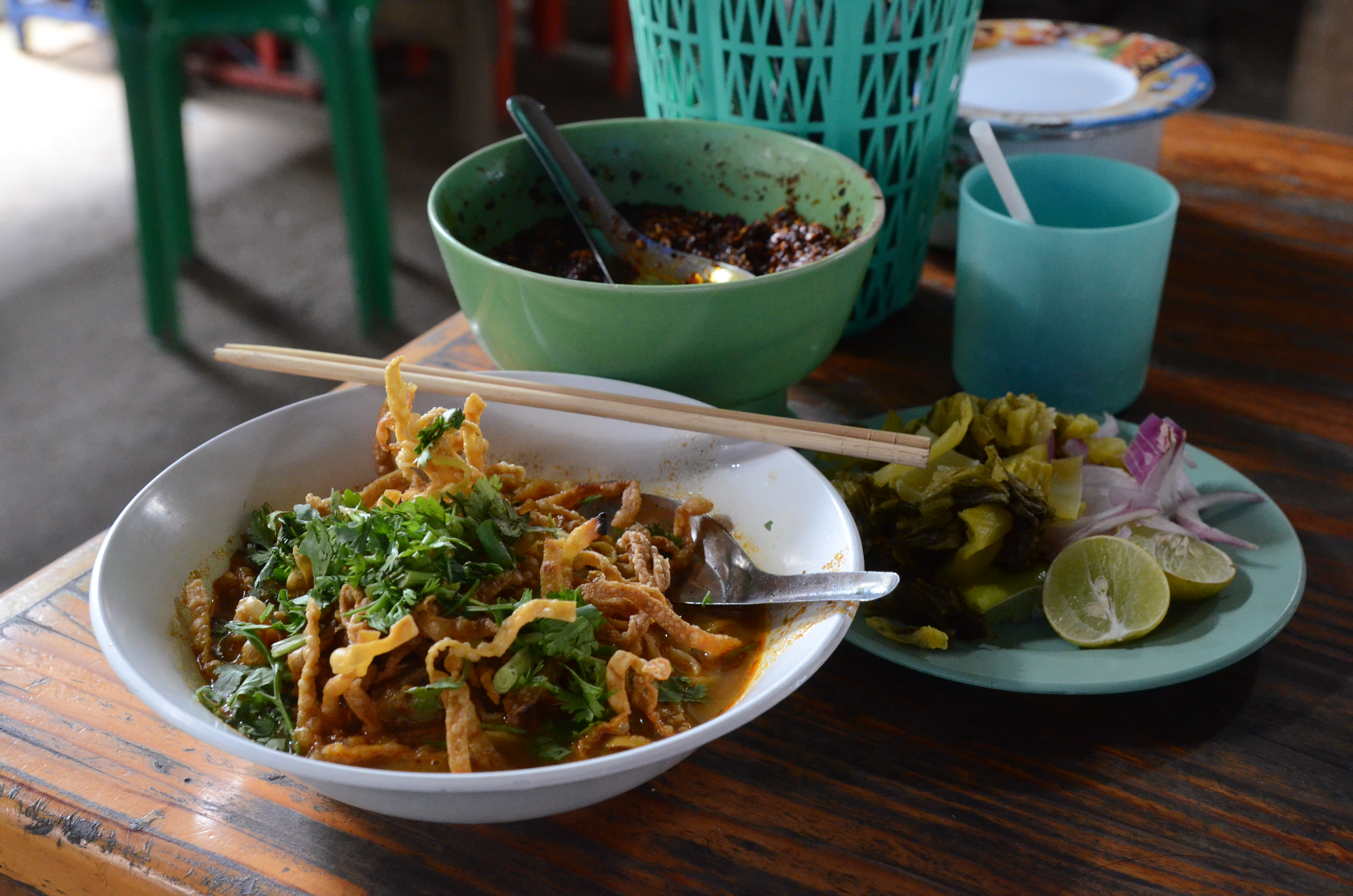 Khao soi (Thai script: ข้าวซอย) is a dish from Northern Thailand with mixed deep-fried egg noodles and cooked egg noodles served in a coconut based curry with meat (most often chicken as with the khao soi in the photo) and served with several condiments such as pickled cabbage, shallots, lime and an oil-fried chilli paste. Laos has its own version of khao soi which has little in common with the Northern Thai dish.